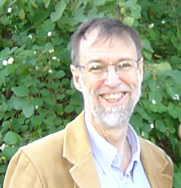 Joseph Goguen at the Workshop on Algorithms and Tools for Coinductive Reasoning, Dresden, September 2004